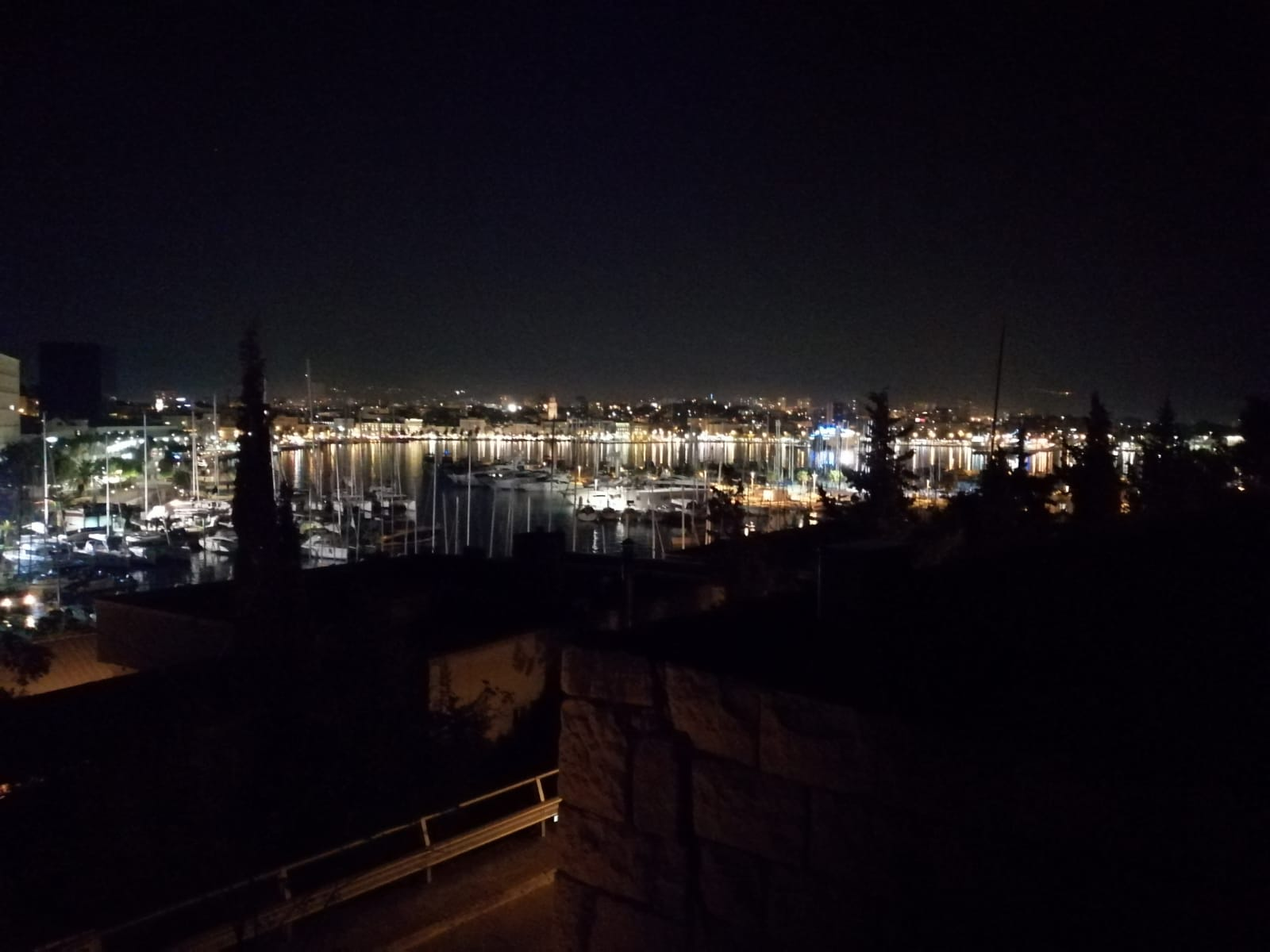 The southwest cape of the Split harbour, beautiful park and also Split's first cemetery